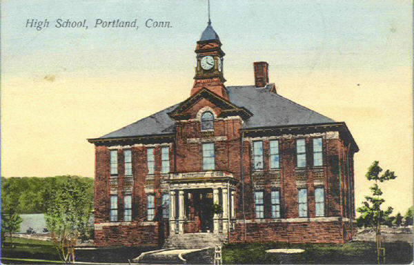 Postcard: High School, Portland, Connecticut, 1907 postmark. Description: "Postcard, Pub by J A Broatch & The Metropolitan News Co, [...] Postally Used - PM Portland, Conn Aug 28, 1907"